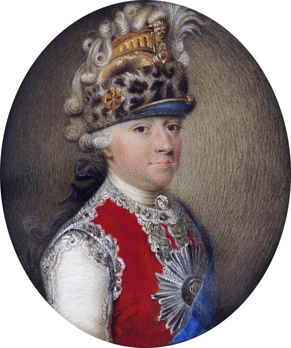 Prince Casimir Poniatowski (1721-1800), in the uniform of Commander of the Royal Horse Guards, silver-bordered red tunic, wearing the blue sash of the Polish Order of the White Eagle, his breast-plate decorated with a star centred with the monogram SA for Stanislas II Augustus Poniatowski